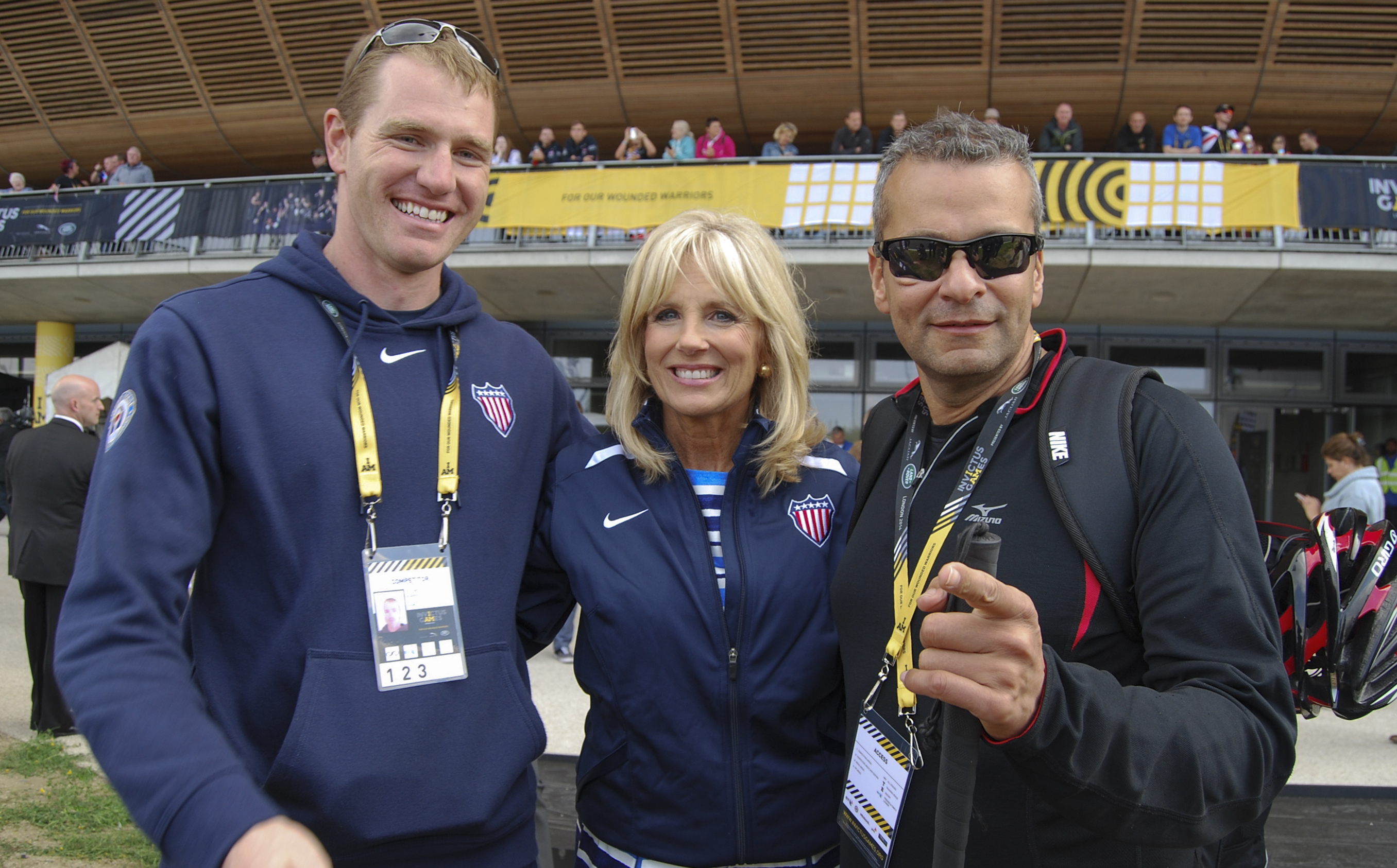 Dr. Jill Biden joins U.S. Army Capt. Ivan Castro (right) and his guide Richard Kirby (left) on the sidelines of a cycling race during the inaugural Invictus Games, an international sporting event for wounded warriors to inspire recovery, support rehabilitation and generate a wider understanding and respect for those who serve their countries. Dr. Biden led the White House delegation to the United Kingdom of Great Britain and Northern Ireland to attend the Closing Ceremony of the 2014 Invictus Games. The United States is one of 14 nations participating. Castro is part of the US team, which includes 98 military athletes: 22 from the Army, 20 from the Marine Corps, 22 from the Navy, 22 from the Air Force and 12 from U.S. Special Operations Command (USSOCOM). Inspired by the U.S. Warrior Games, Prince Harry and the Royal Foundation Invictus Games, hosted this international sports competition involving cycling, swimming, track & field, archery, wheelchair rugby, sitting volleyball, wheelchair basketball, and indoor rowing, and powerlifting.